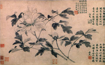 Peony, by Chinese artist Wang Qian. Handscroll, ink on paper, 37.7 x 61.6 cm.